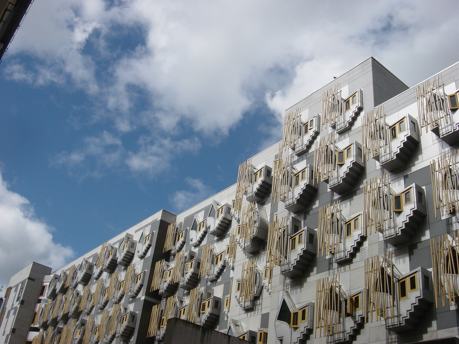 the Scottish Parliament building in Edinburgh